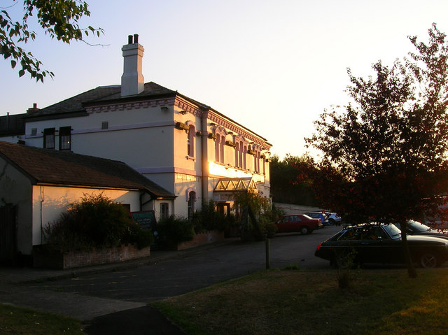 Old Polegate Station. Now a pub of the same name. This was actually the second Polegate station built. The original was erected on the current site but was moved when the line to Hailsham was constructed in the 1860s. It remained here until that line was lost to the Beeching Axe in 1968 and the station was moved back to its original position on Polegate High Street. The old platforms are still visible on the track.